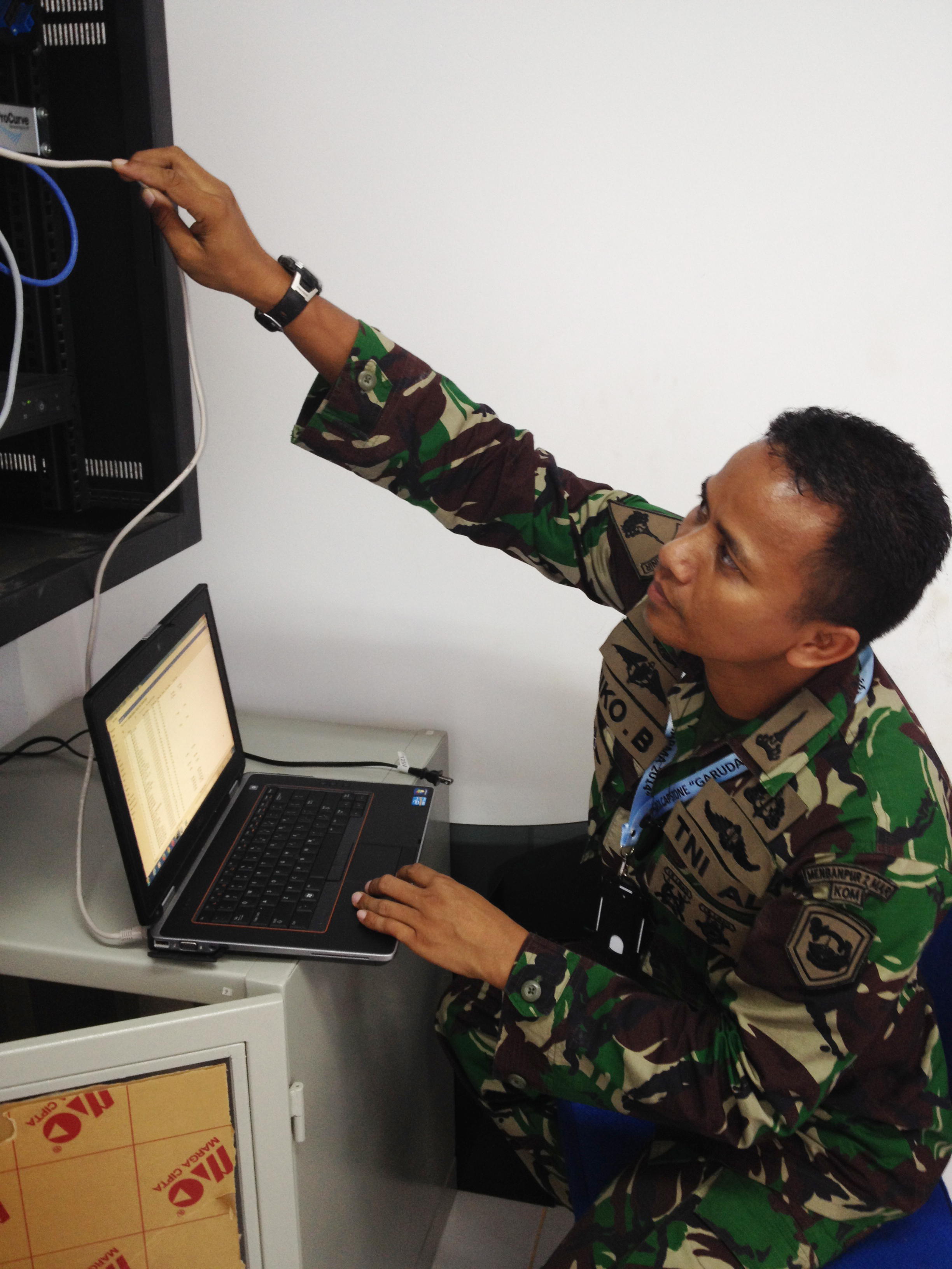 Indonesian Marine Maj. Nikodemus Balla troubleshoots and restores Internet connection at the Indonesia Peace and Security Center in Sentul, Indonesia, Aug. 29, 2014. The major and his team are responsible to provide Internet access, telephone, radio and closed-circuit communication support to the largest peacekeeping training event of 2014. The Global Peace Operations Initiative Capstone Training Event Garuda Canti Dharma is an Indonesian National Defense Force training event supported by the U.S. Pacific Command GPOI Program. Training events such as this contribute to regional peacekeeping training capacity and strengthen multinational cooperation. Unit: 117th Mobile Public Affairs Detachment (Hawaii) DVIDS Tags: Indonesia; Japan; Canada; united nations; United States; USPACOM; US Pacific Command; Pacific Command; Ambassador; New Zealand; Hawaii Army National Guard; Nepal; Cambodia; PACOM; Philippines; Bangladesh; UN; USA; Mongolia; GPOI; HIARNG; United States Pacific Command; Global Peace Operations Initiative; GPOI 2014; Garuda Canti Dharma; Global Peace Operations Initiative 2014; Garuda Canti Dharma 2014